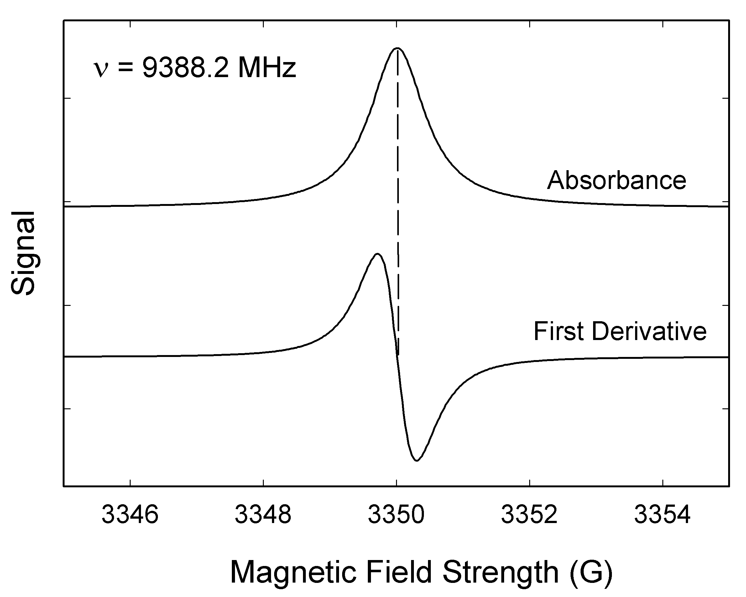 Personal creation; no rights claimed